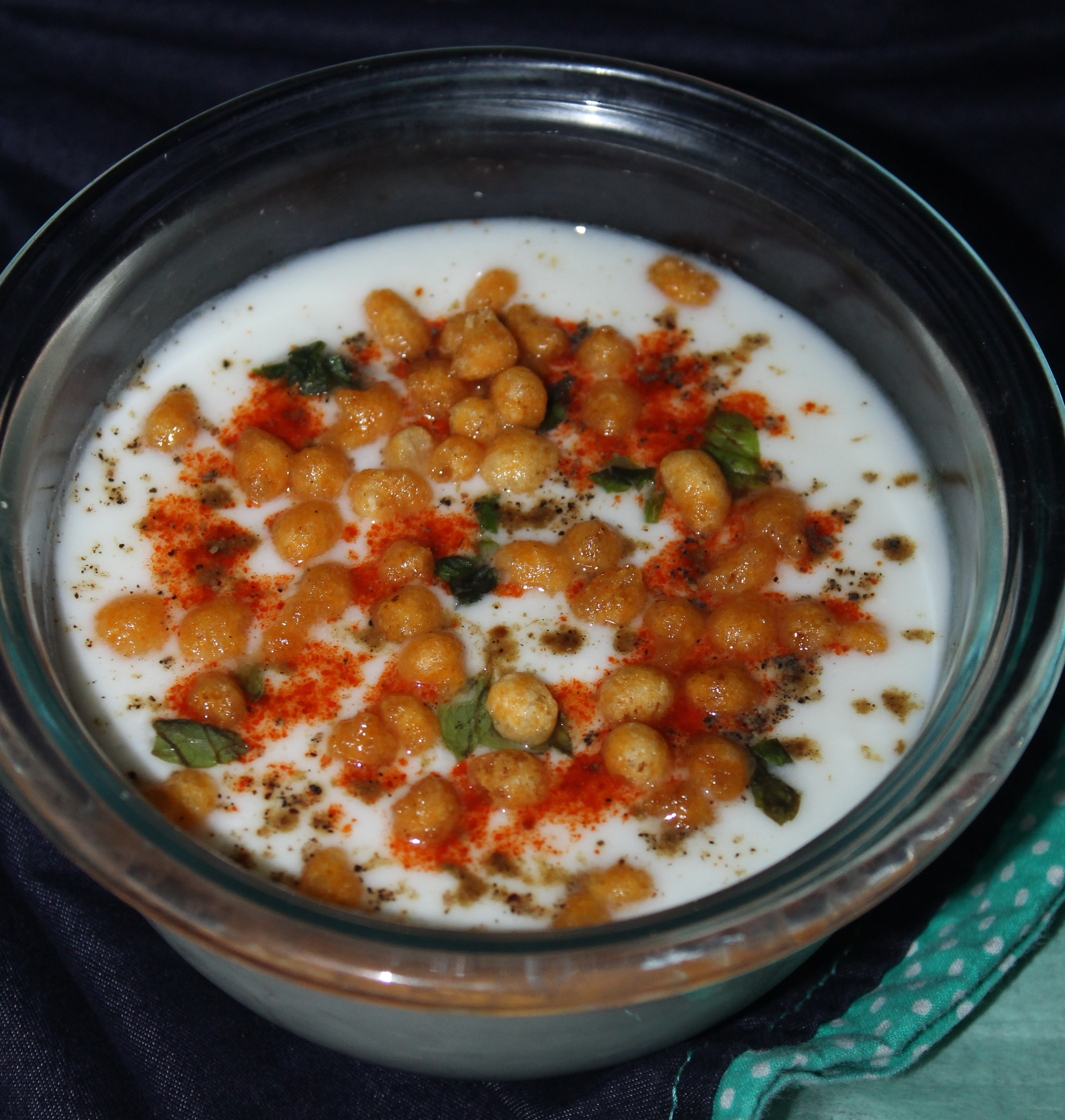 raita made with boondhi